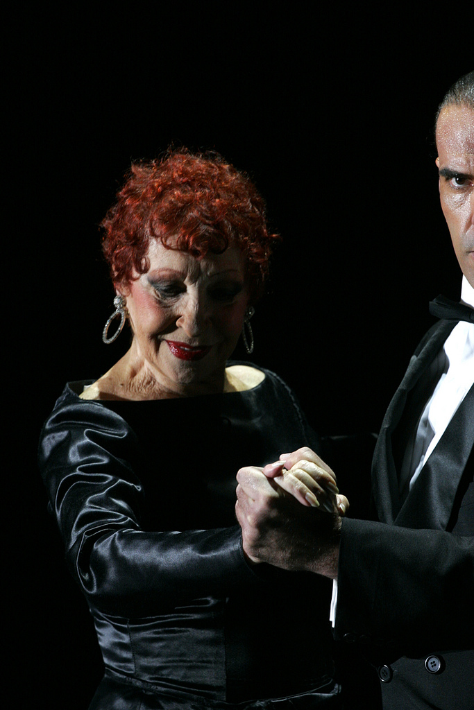 Maria Nieves, tango dancer, dancing at Tango Argentino, presented in the Obelisco, Buenos Aires, 2011. Photo: Estrella Herrera